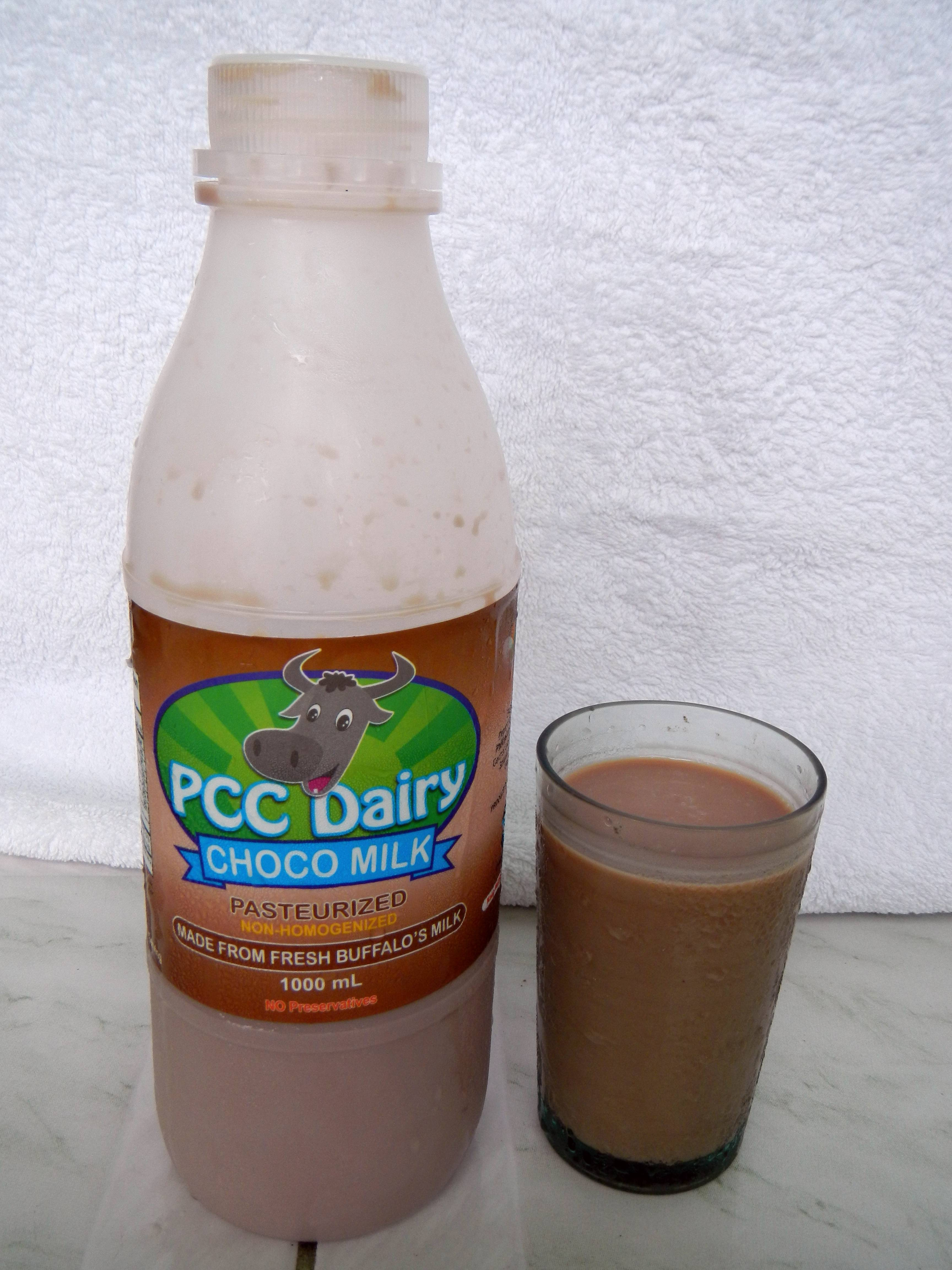 PCC Dairy Choco Milk, pasteurized, non-homogenized, made from fresh water buffalo's milk[1]